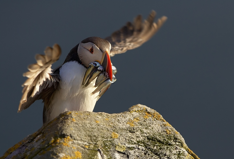 Fratercula arctica, Runde, Norway